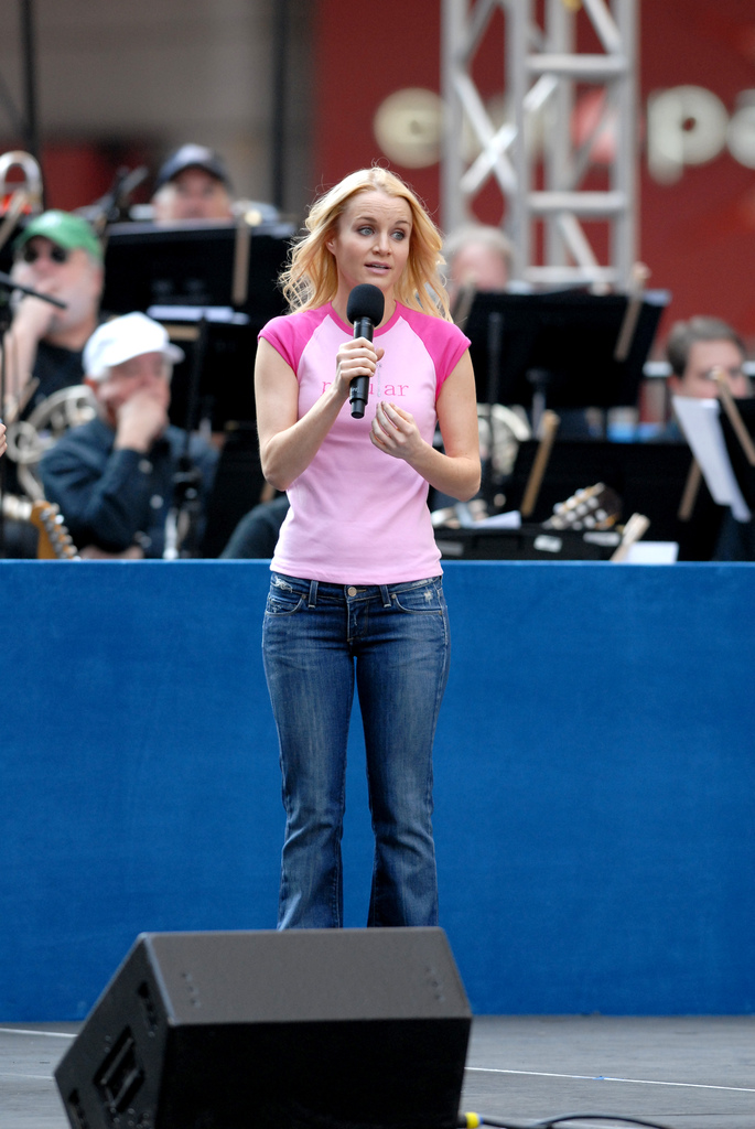 Wicked cast members Kate Reinders and Eden Espinoza perform "For Good" at Broadway on Broadway, September 10th 2006.